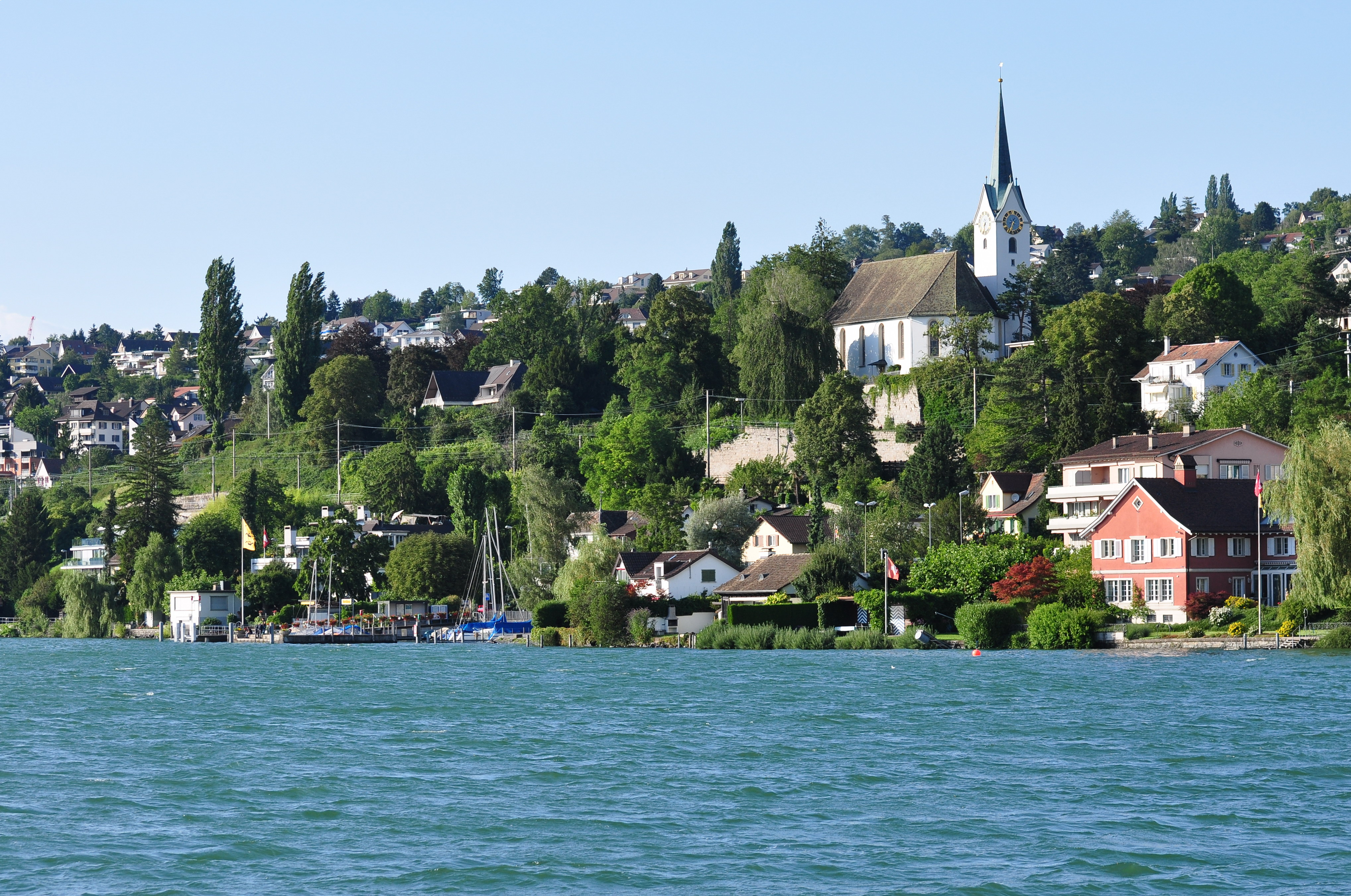 Herrliberg (Switzerland) as seen from ZSG paddle steamship Stadt Rapperswil